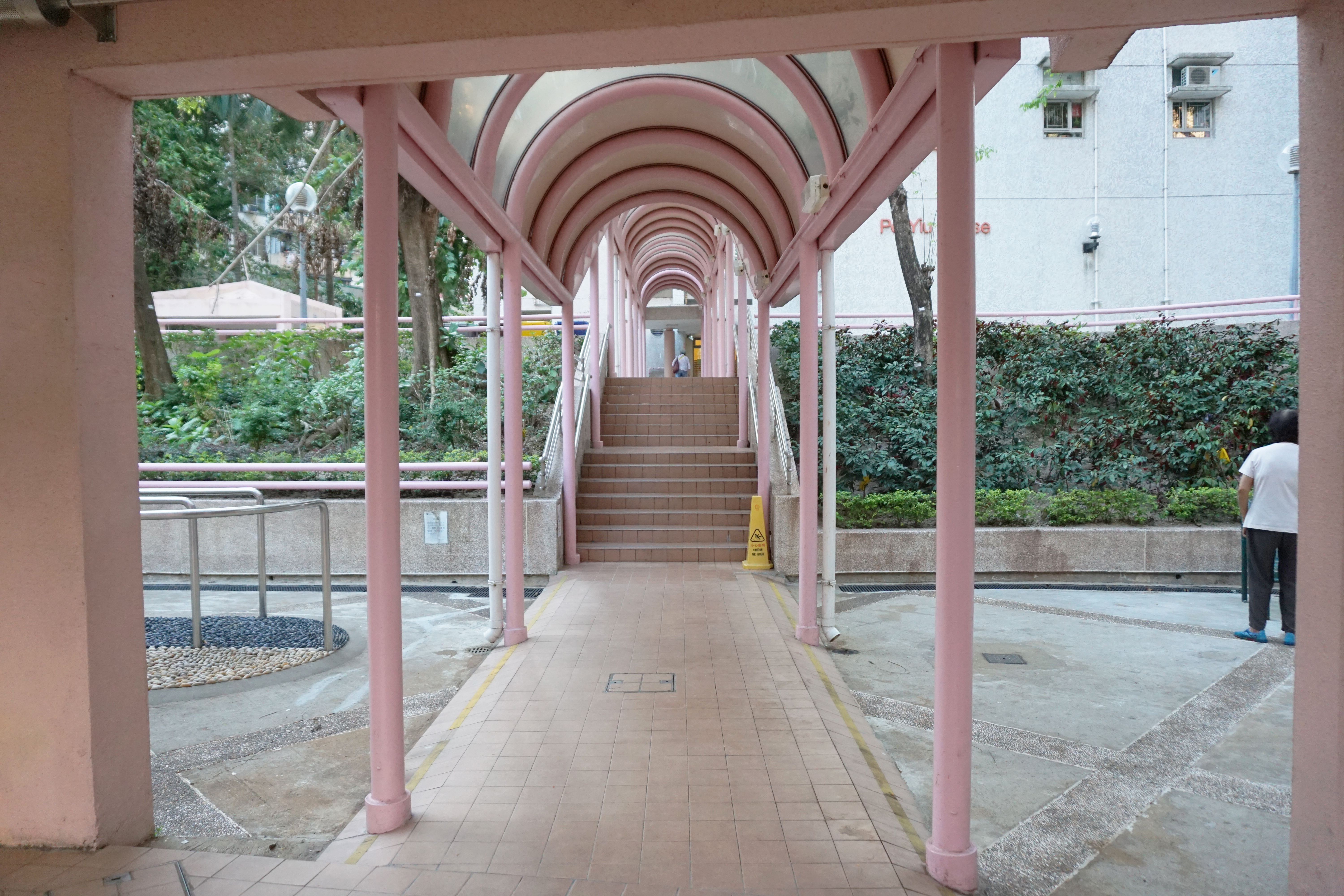 Po Pui Court in Kwun Tong, Hong Kong.